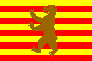 Flag of the belgian city of Beringen.